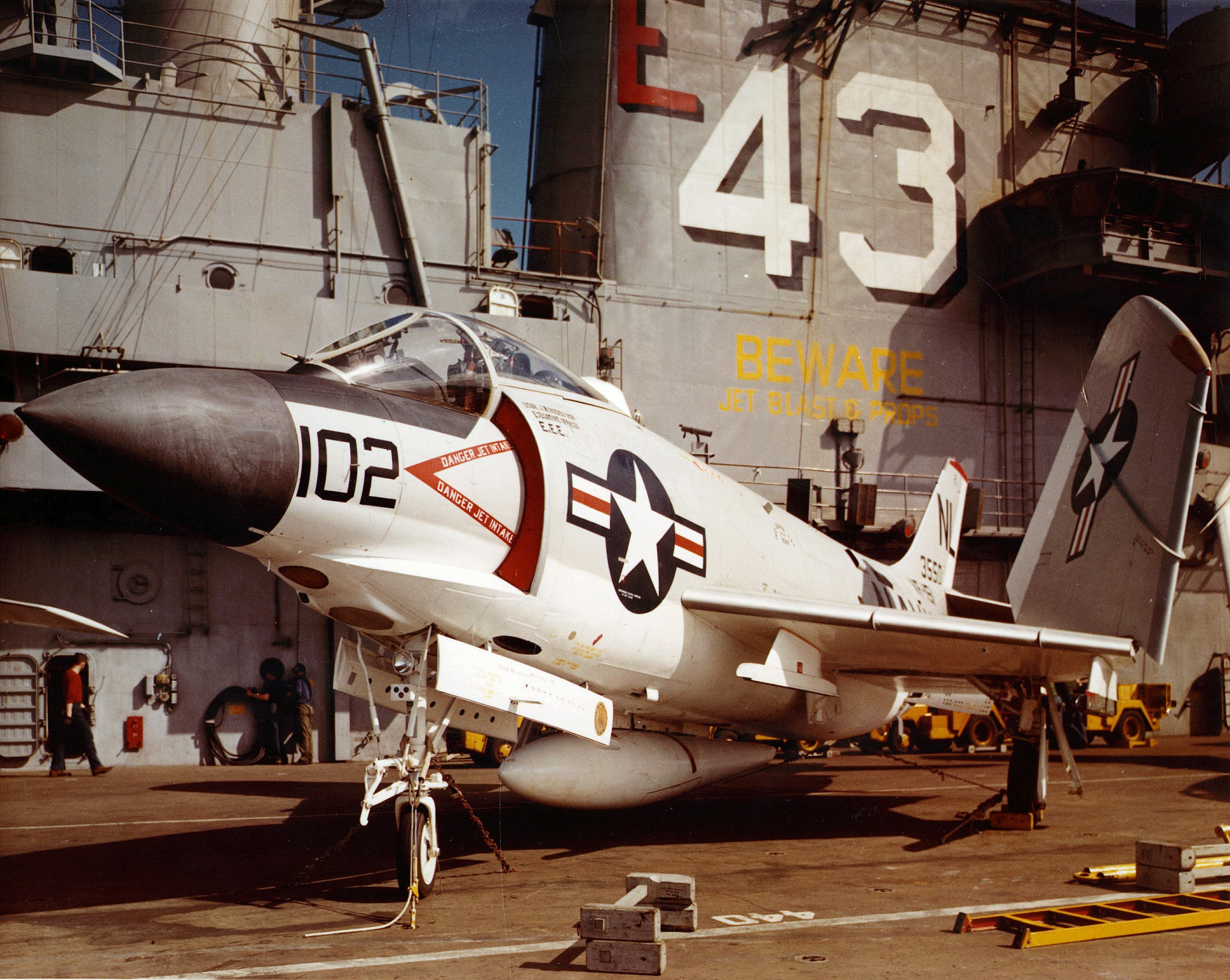 A U.S. Navy McDonnell F3H-2N Demon (BuNo 133550) of fighter squadron VF-151 Vigilantes on the flight deck of aircraft carrier USS Coral Sea (CVA-43) during the ship's Operational Readiness Inspection (ORI) off Hawaii, 18 December 1961. The aircraft was assigned to LCdr. J.H. Dozier, the squadron executive officer.